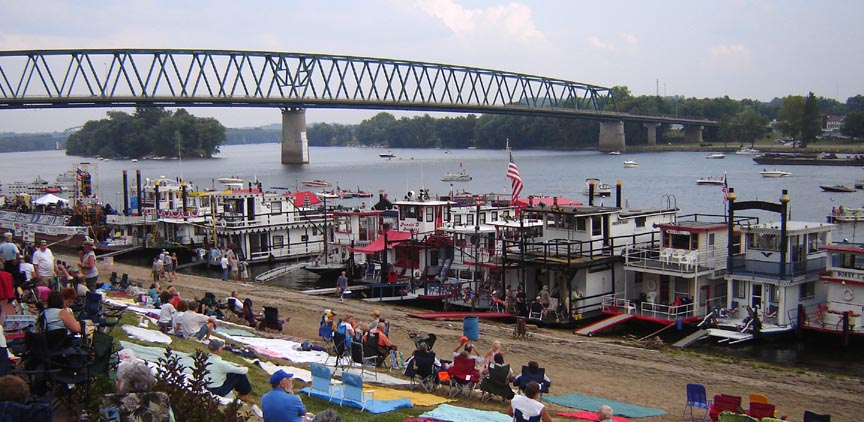 Marietta Sternwheeler Festival 2007, Marietta (Ohio).